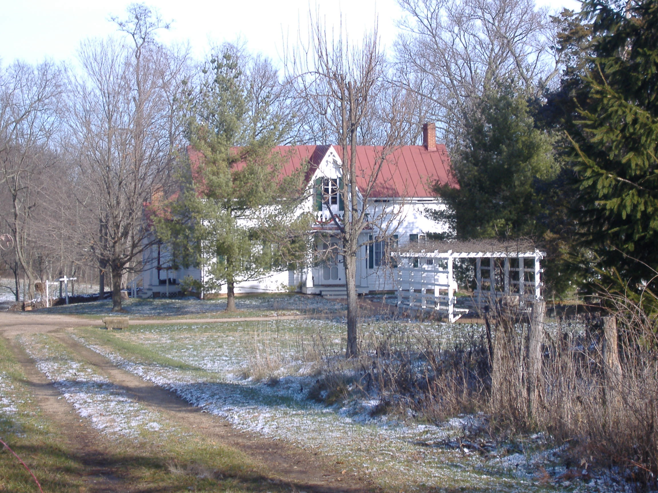 Fridley-Oman farm located in Pickaway County, Ohio.